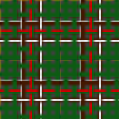 The official tartan of the Canadian province of Newfoundland and Labrador, created in 1955.